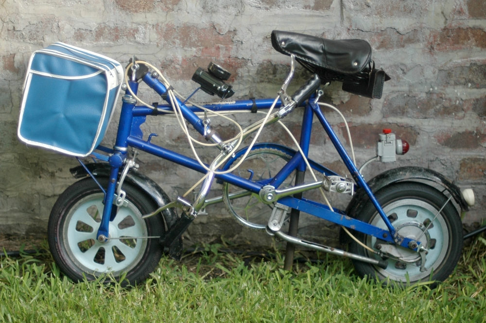 The first of the English folding bikes of the 1960s - Bootie Folding Cycle, or Bootie Bicyle. It is very small but not lightweight, being at least as heavy as the typical full size bike of the time. Made by Kitchin and Co, Vickersdale, Stanningley, Leeds UK 1965 - 1973